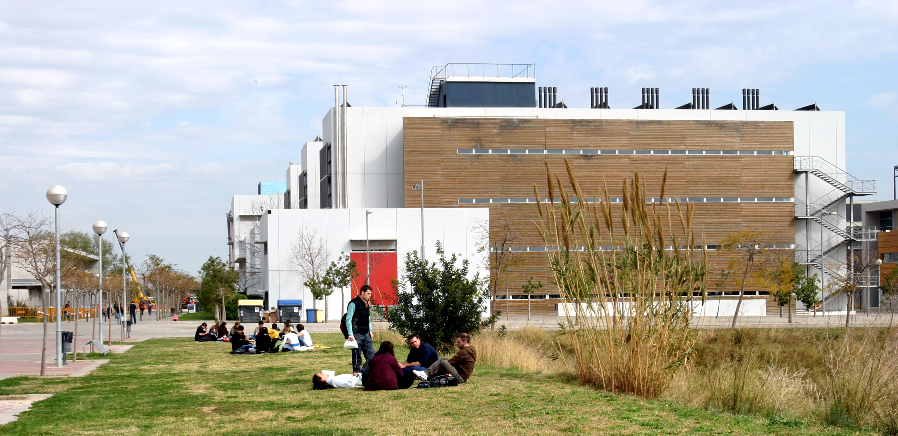 EPSC from the outside